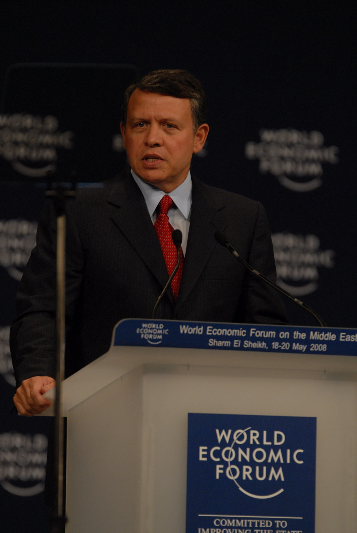 SHARM EL SHEIKH/EGYPT, 18MAY08 - H.M. King Abdullah Ibn Al Hussein of the Hashemite Kingdom of Jordan, addressing the Opening Plenary session of the World Economic Forum on the Middle East 2008 held in Sharm El Sheikh, Egypt. Copyright World Economic Forum ( Watch this session on the World Economic Forum's YouTube channel.